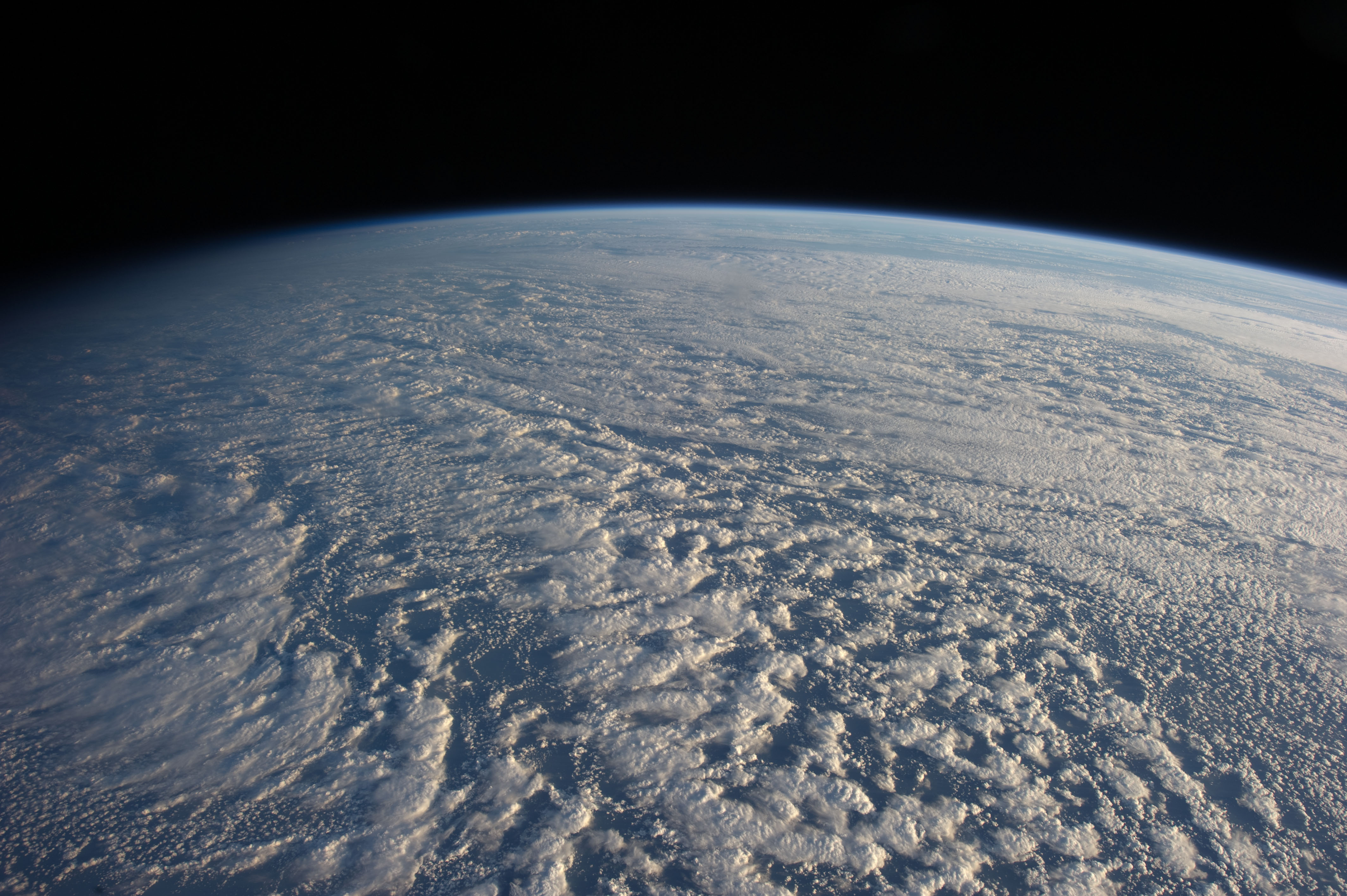 On Jan. 4 a large presence of stratocumulus clouds was the central focus of camera lenses which remained aimed at the clouds as the Expedition 34 crew members aboard the International Space Station flew above the northwestern Pacific Ocean about 460 miles east of northern Honshu, Japan. This is a descending pass with a panoramic view looking southeast in late afternoon light with the terminator (upper left). The cloud pattern is typical for this part of the world. The low clouds carry cold air over a warmer sea with no discernable storm pattern. ISS Crew Earth Observations: ISS034-E-016601IdentificationMissionISS034 (Expedition 34)RollEFrame016601CameraCamera Focal Length24 mmCameraNikon D3SQualityPercentage of Cloud Cover76-100%Nadir What is Nadir?Date2013-01-04Time05:56:04